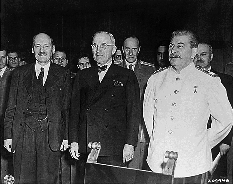 From left to right. British Prime Minister Clement Attlee, American President Harry S. Truman and Soviet leader Joseph Stalin at the Potsdam Conference in 1945.